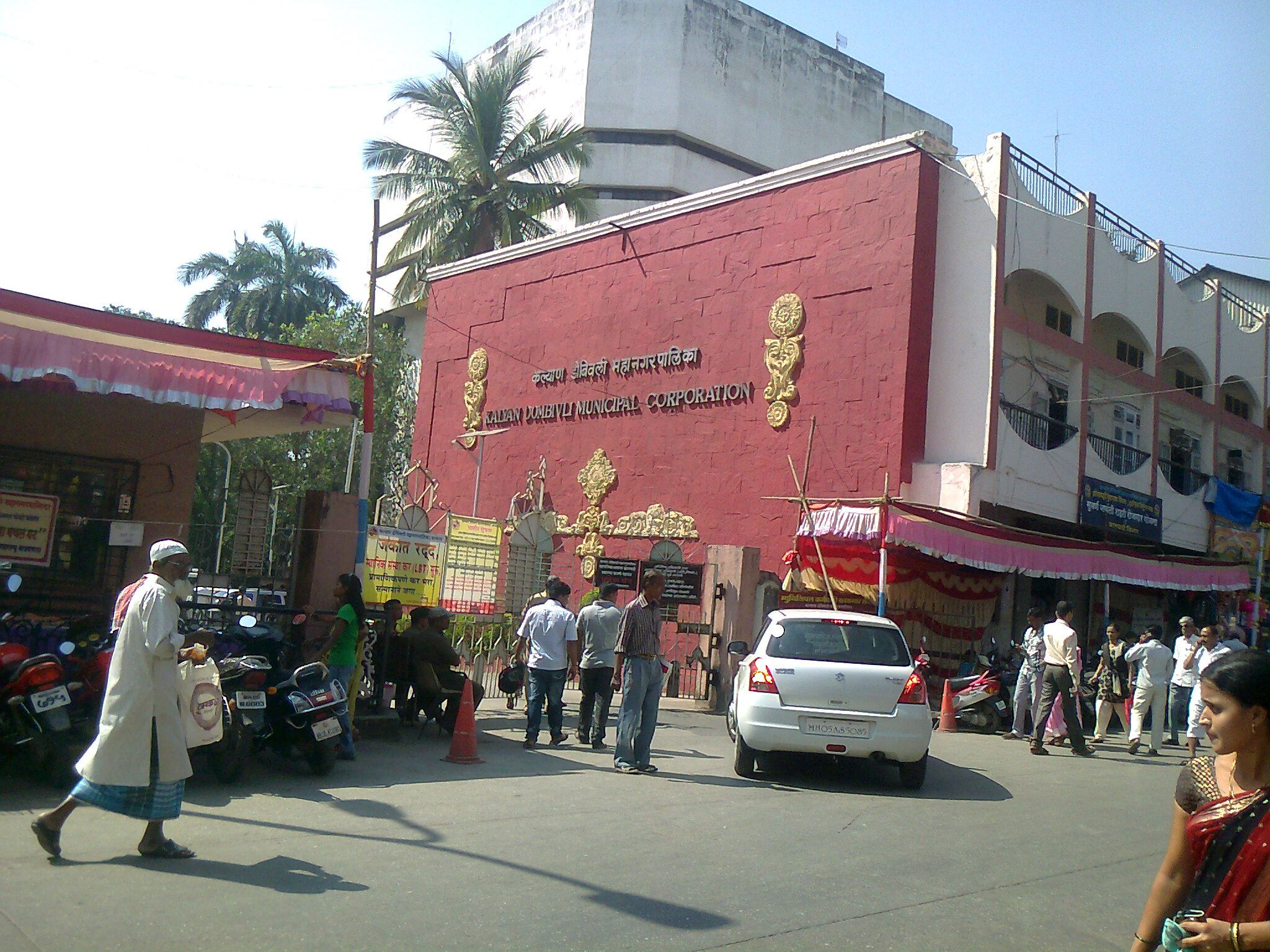 Kalyan-Dombivili is a city and a municipal corporation with its headquarters located in Kalyan in Thane district in the Indian state of Maharashtra. It was formed in 1982 to administer the twin townships of Kalyan and Dombivli. The municipal corporation has a population 1,193,266 (2001 census), and covers 137.15 square km, giving a density of 8,700 people per square km[1] Kalyan has a history 700 years.